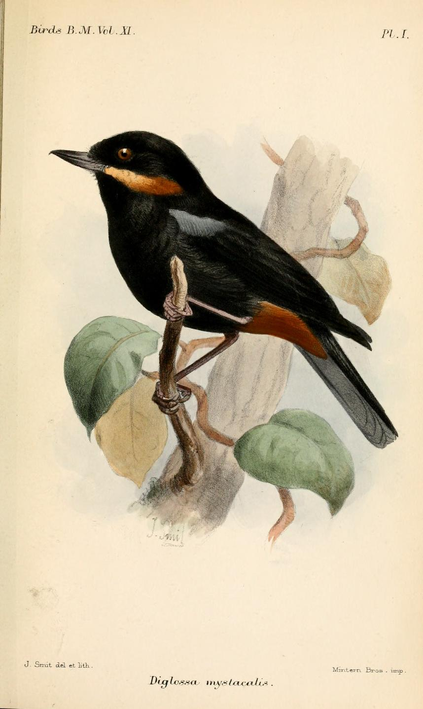 Diglossa mystacalis, Moustached Flowerpiercer